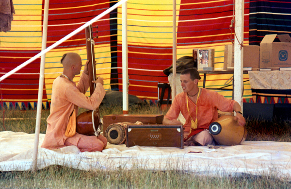 Image (photograph) taken by Official Nambassa Photographer and uploaded by User:Mombas 15:06, 4 May 2007 (UTC) , Nambassa dot com Terms of Use: 1/ All users of this image are required to attribute this work to "Nambassa Trust and Peter Terry" and the url: " " is to accompany all use. 2/ Attribution. You must attribute the work in the manner specified by the author or licensor. 3/ For any reuse or distribution, you must make clear to others the license terms of this work. Statement by Nambassa Trust and Peter Terry